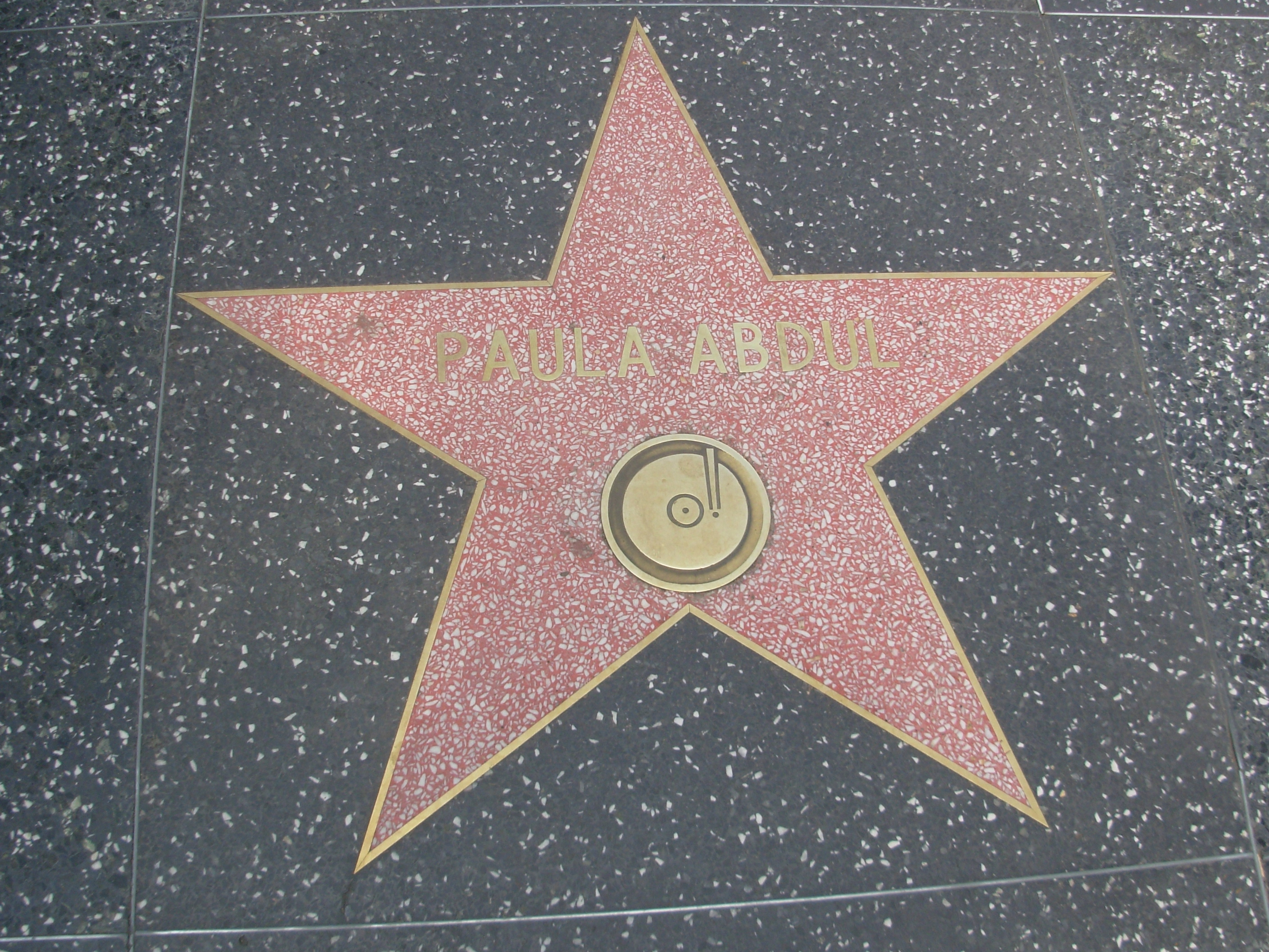 Paula Abdul's star on the Hollywood Walk of Fame in Los Angeles, California, USA